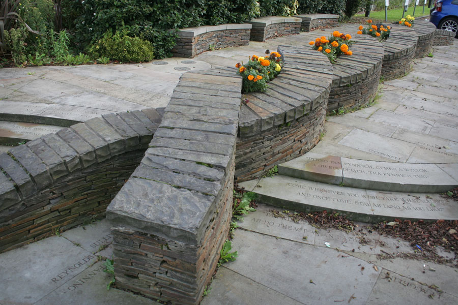 Newtown Memorial Garden, Atlantic Wharf, Cardiff. Designed by artist David Mackie